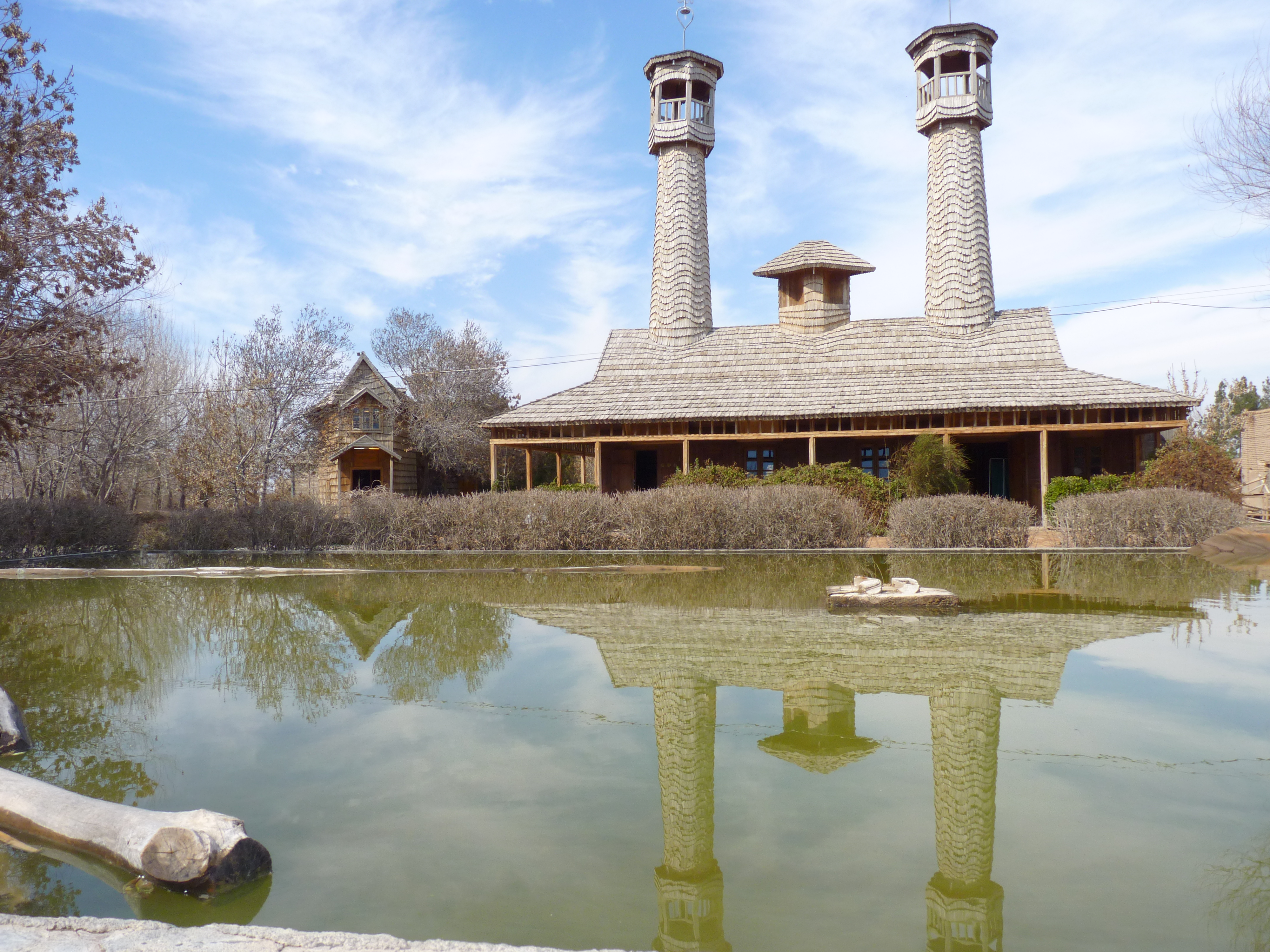 Wooden mosque at Nishapur, Iran.